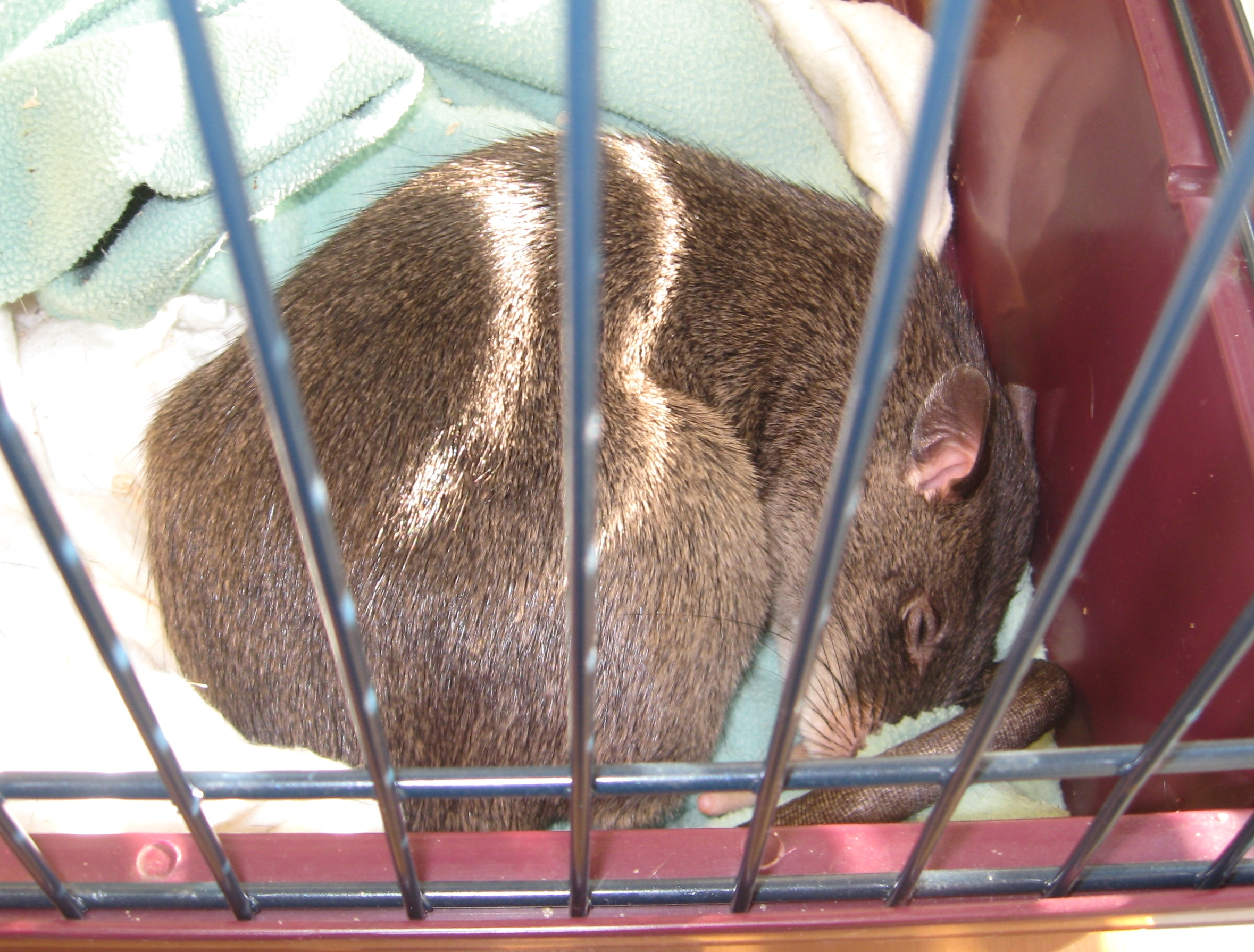 Gambian pouch rat (Cricetomys gambianus)